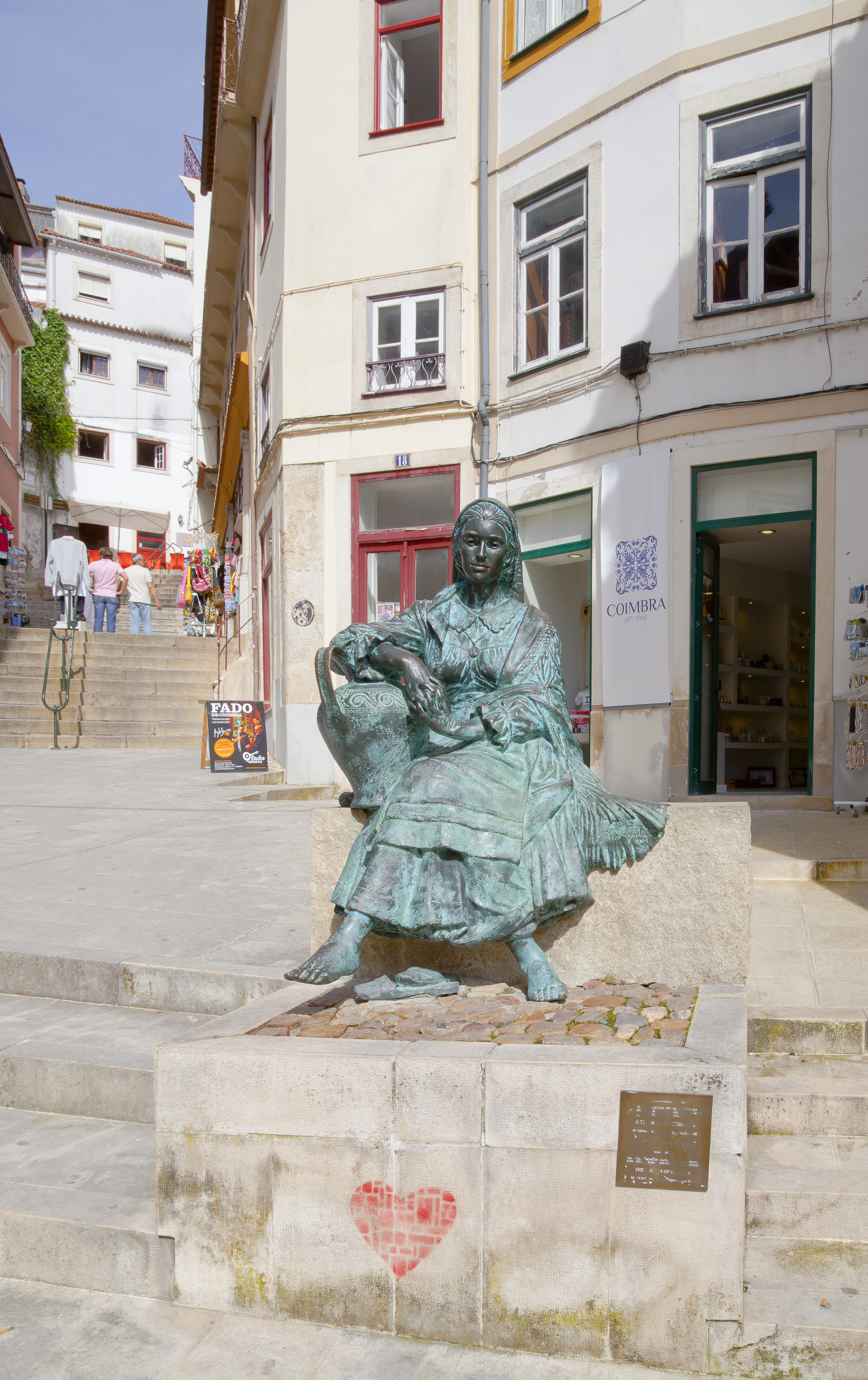 Tricana de Coimbra, Coimbra, Portugal